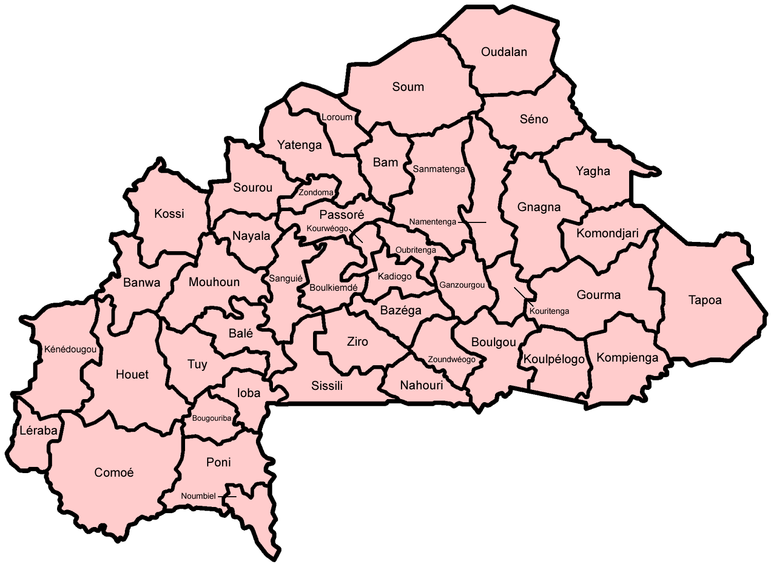 Map of the provinces of Burkina Faso, named. Based on a United Nations map, made by User:Golbez.